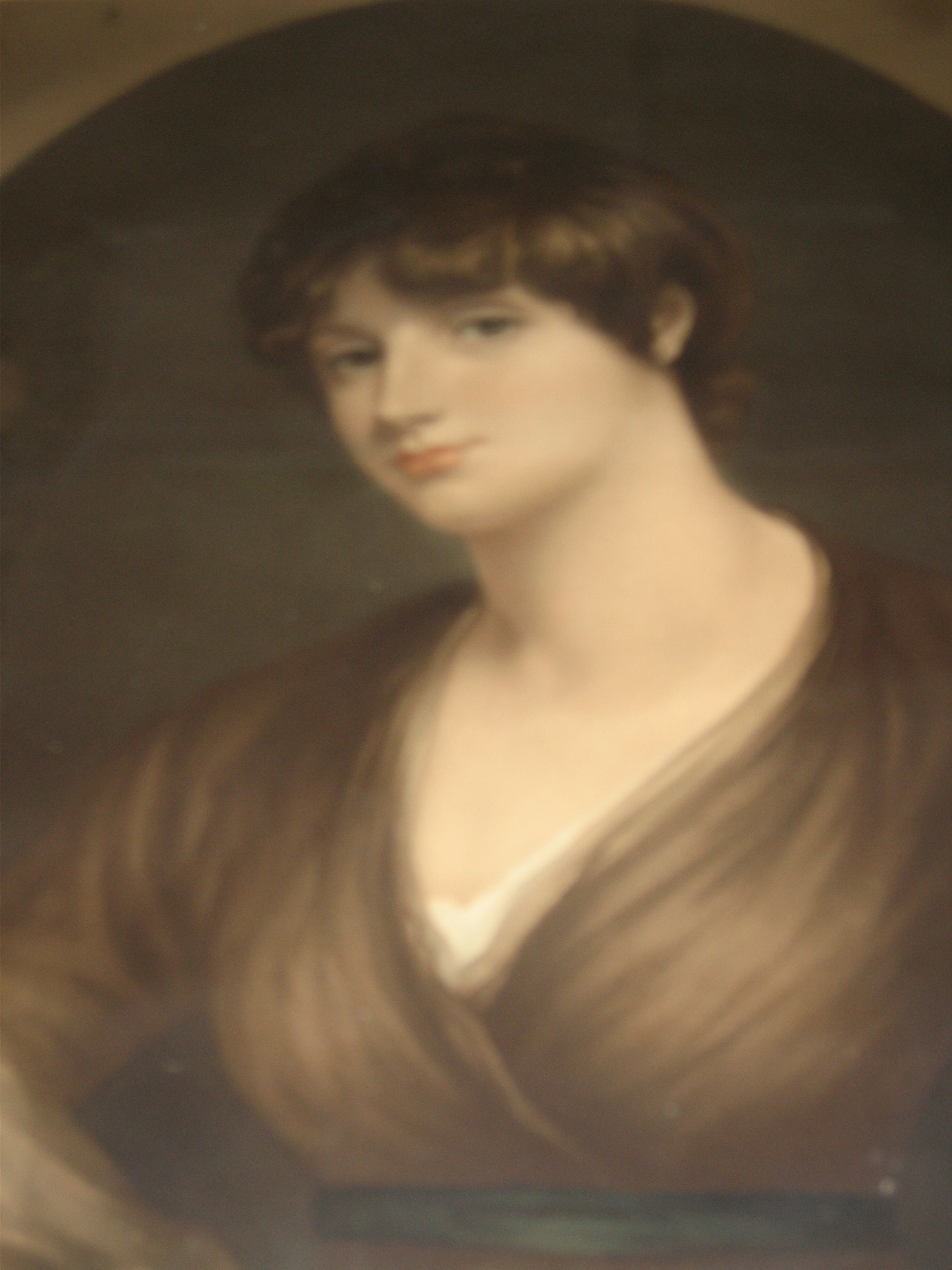 Photograph of a print of a portrait (by John Hoppner) of Marcia nee Clapcott-Lisle who married rt hon Charles Arbuthnot.